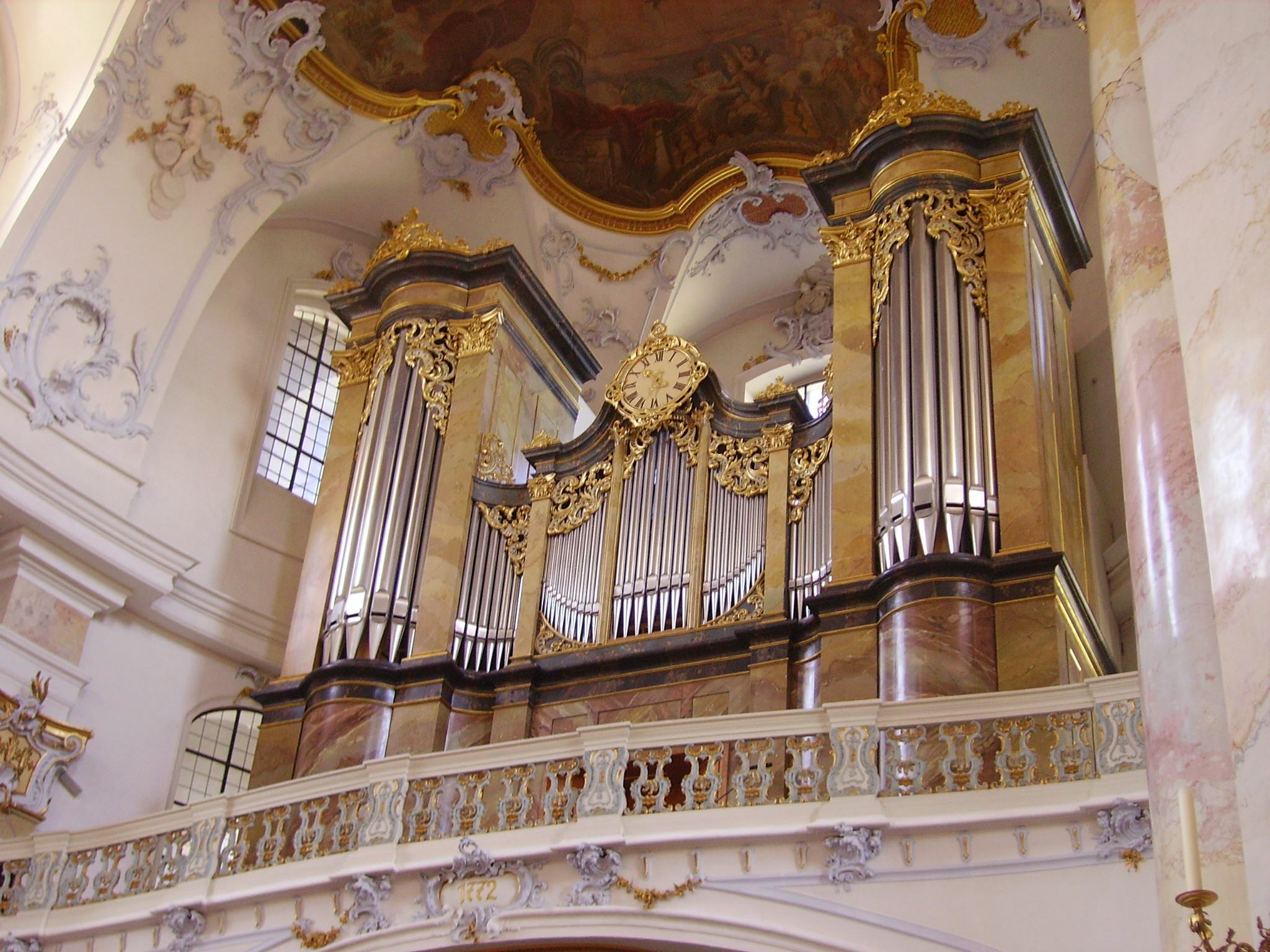 Organ of Vierzehnheiligen Basilica, Bad Staffelstein